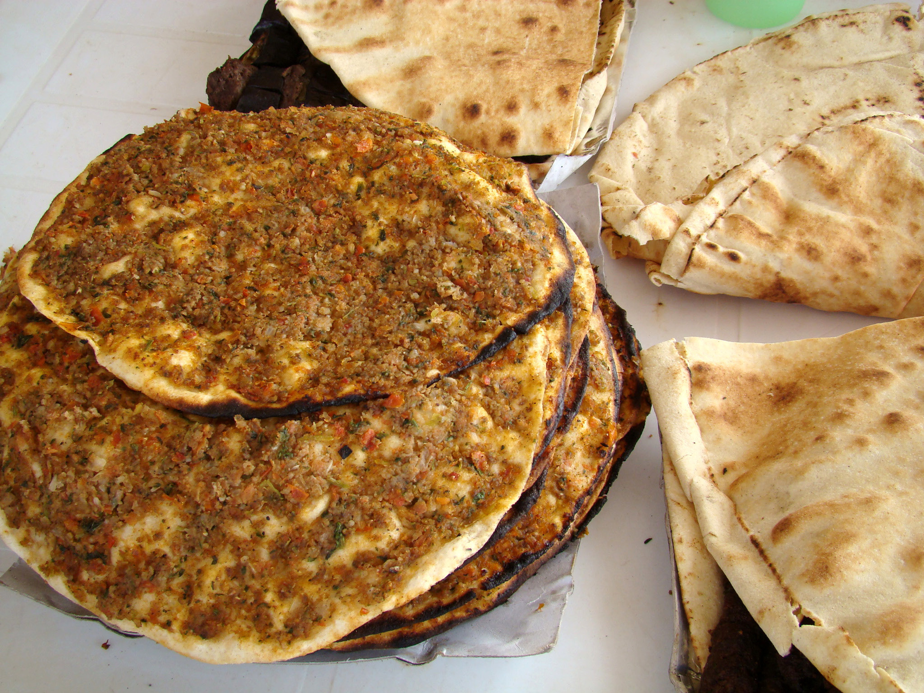 Bakery, Aleppo, Syria